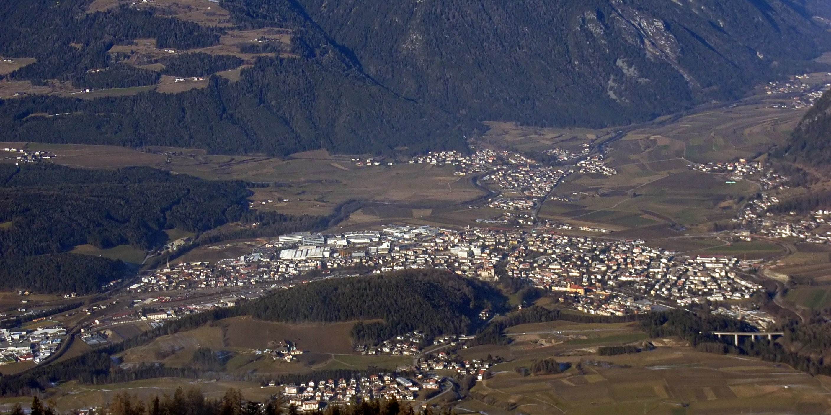 Italy, South Tyrol: Bruneck (italian Brunico).